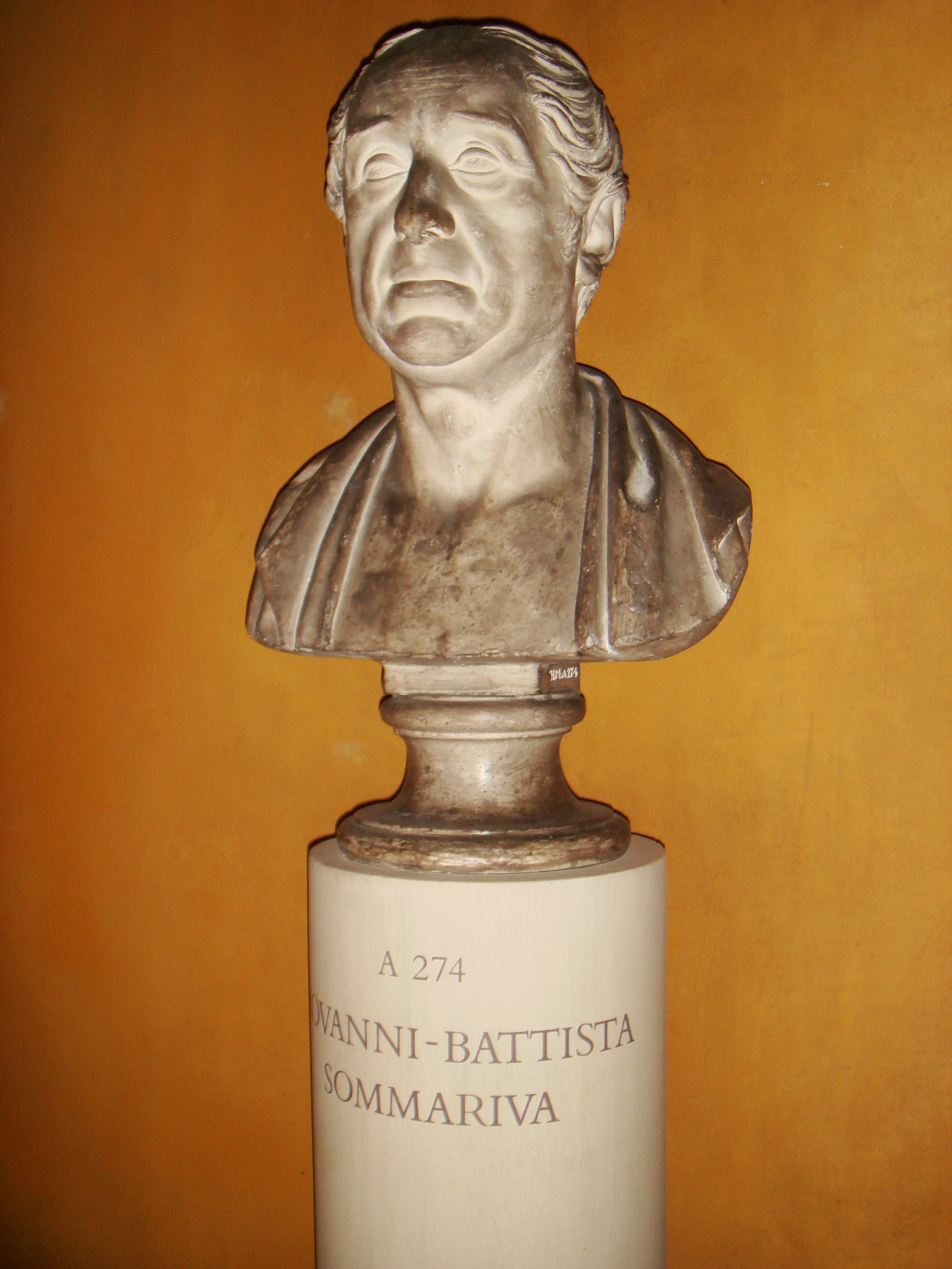 Bust of Giovanni Battista Sommariva by Bertel Thorvaldsen. Museo Thorvaldsen, Copenhagen. Picture by Stefano Bolognini.